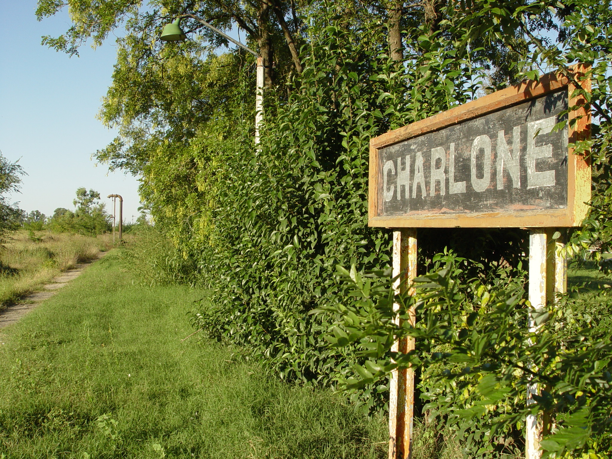 Cartel de la antigua estación de trenes de Coronel Charlone